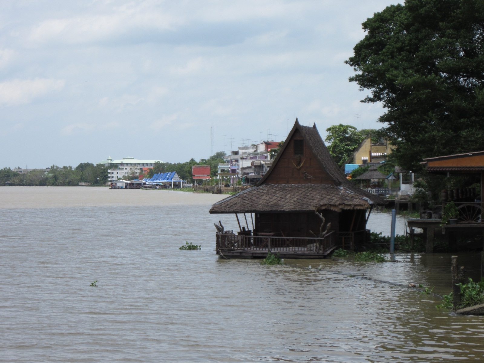 Houseboat